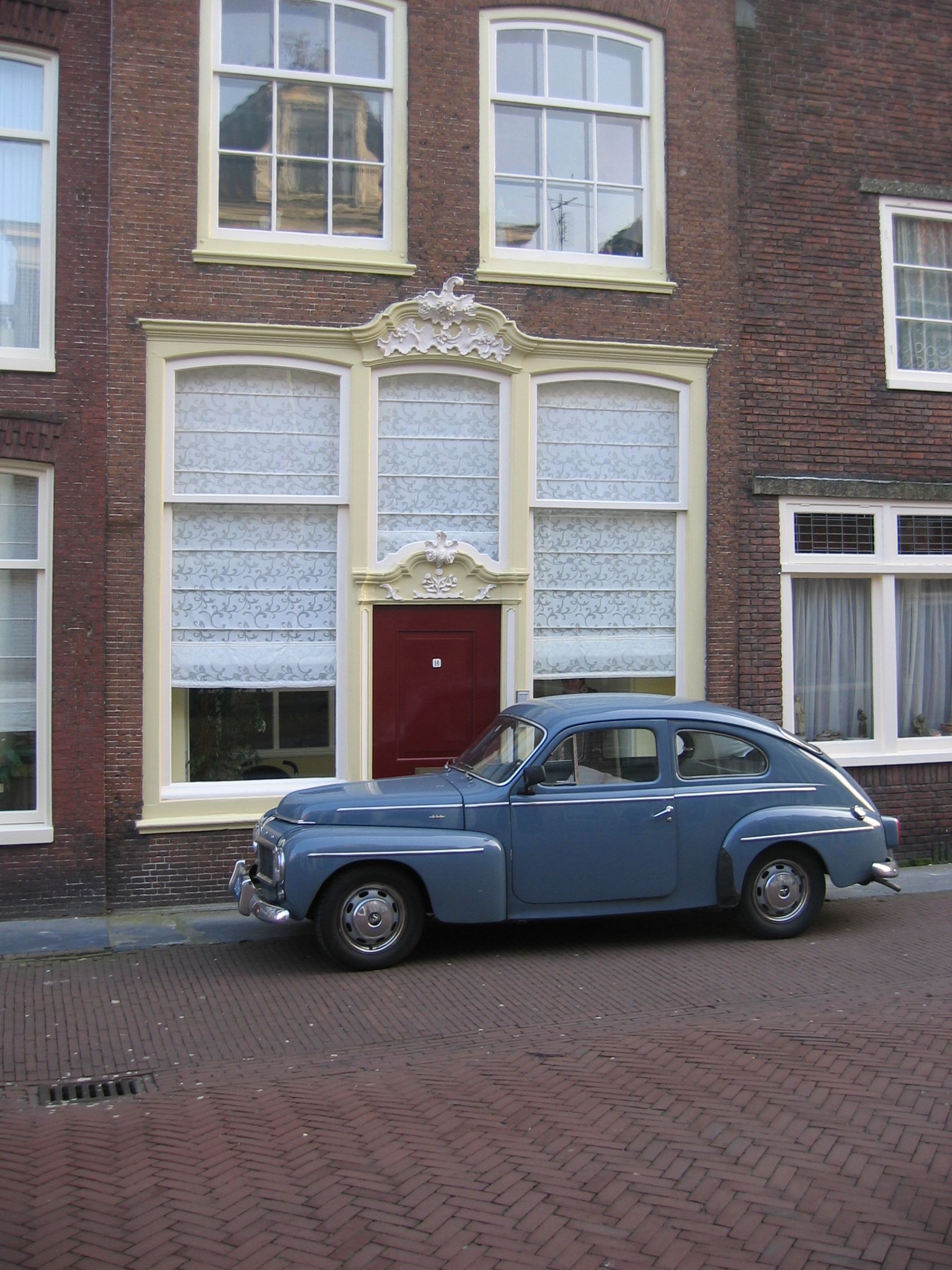 Volvo PV544